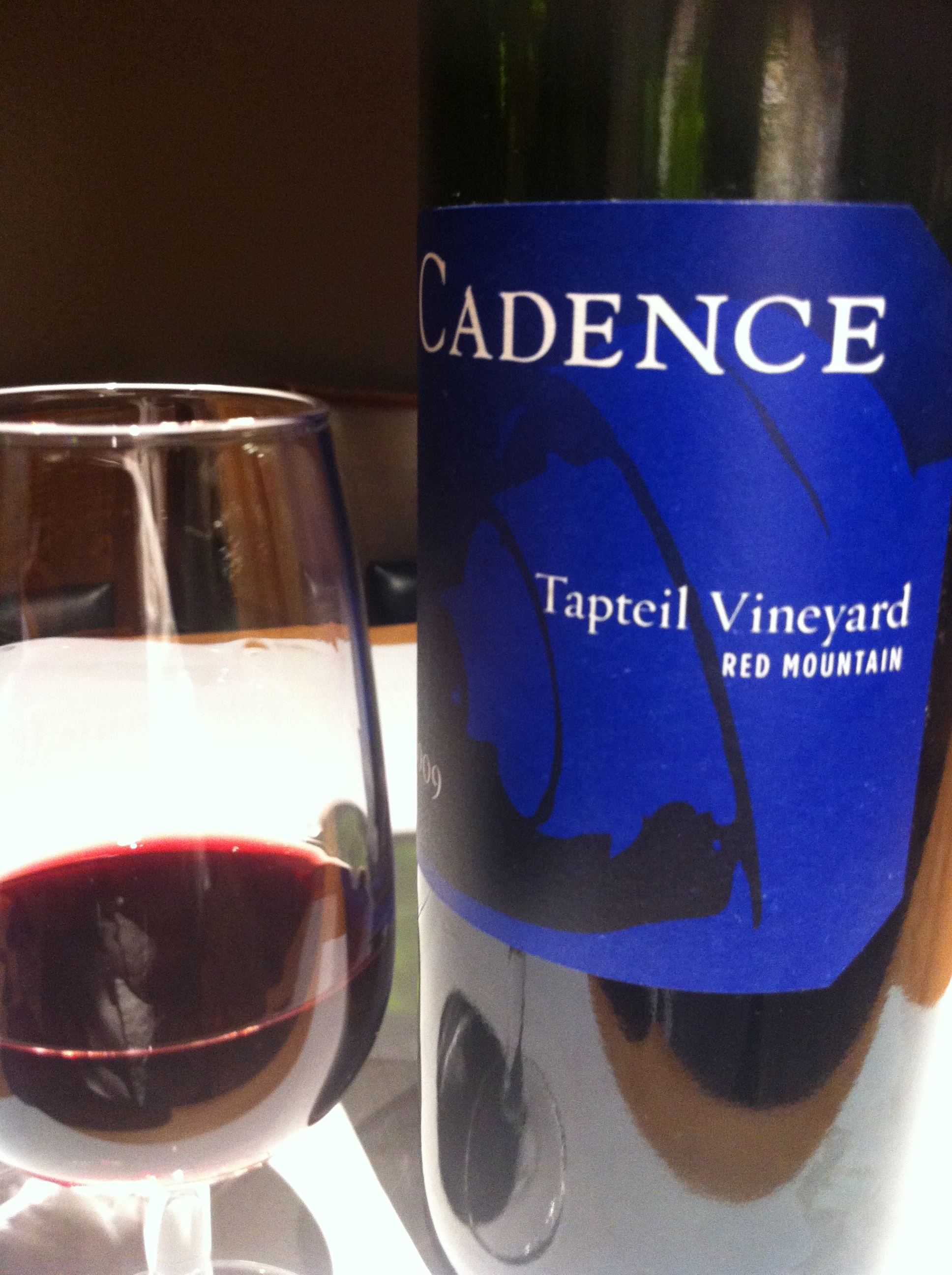 A red blend from the Tapteil Vineyard located in the Washington State wine region of Red Mountain